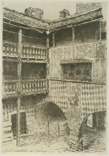 Engraving of Fènis castle courtyard by Celestino Turletti